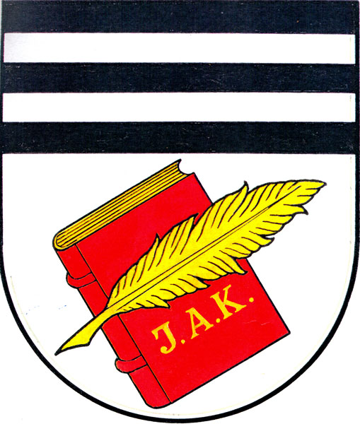 Municipal coat of arms of Nivnice village, Uherské Hradiště District, Czech Republic.